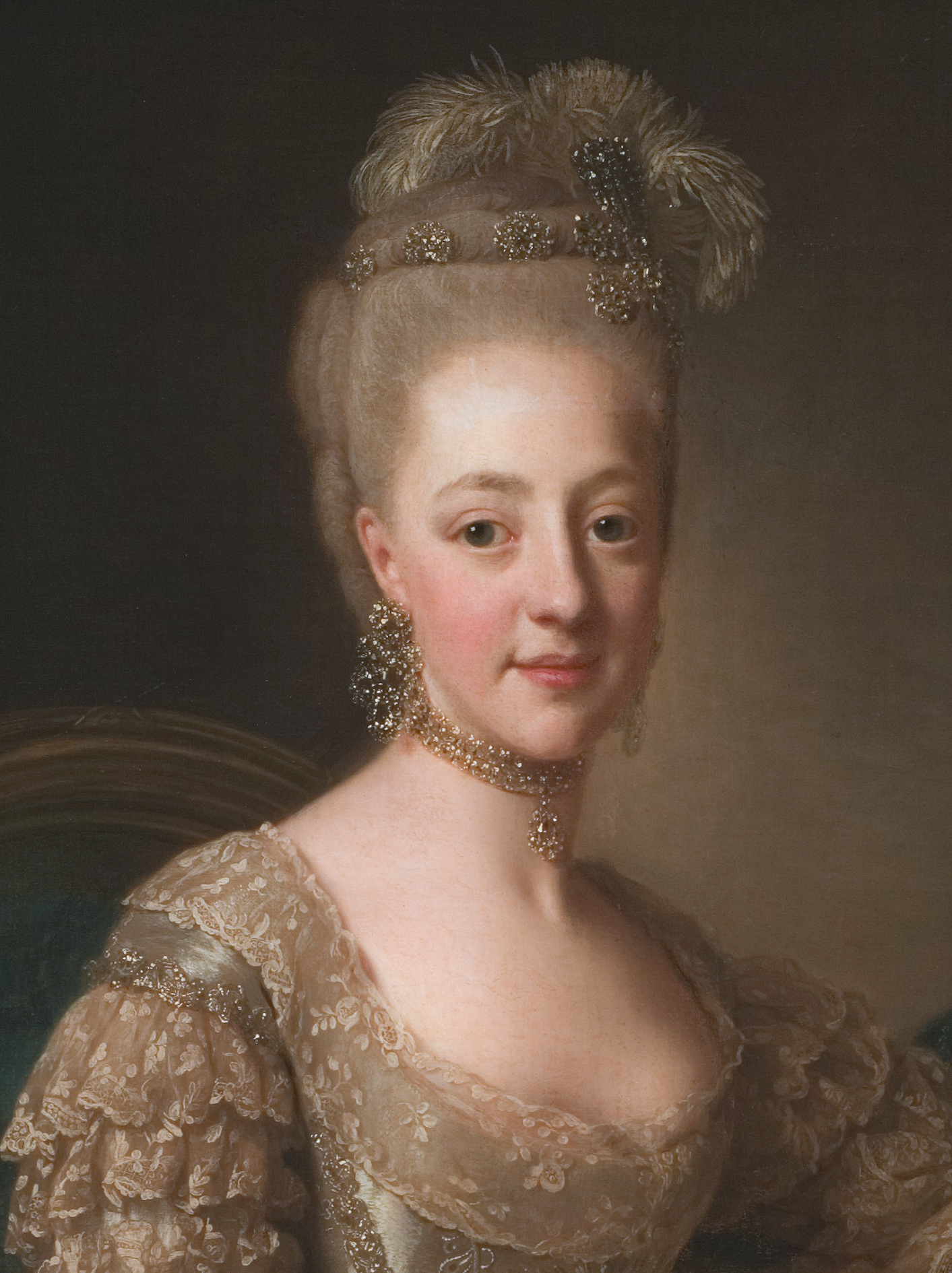 Portrait of Hedwig Elizabeth Charlotte of Holstein-Gottorp (1759-1818)